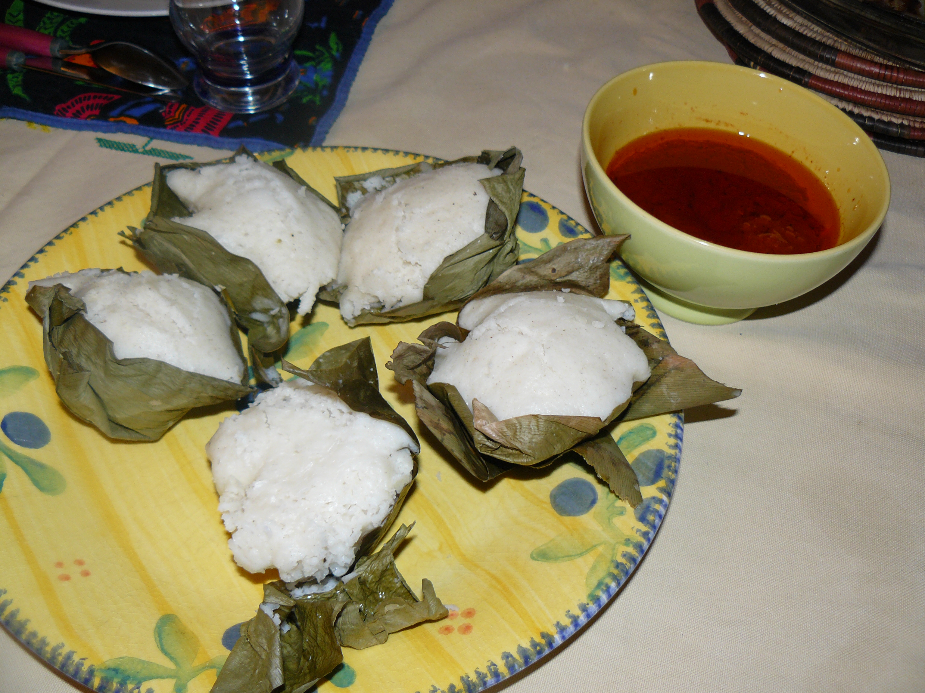 Corn-based ablos.